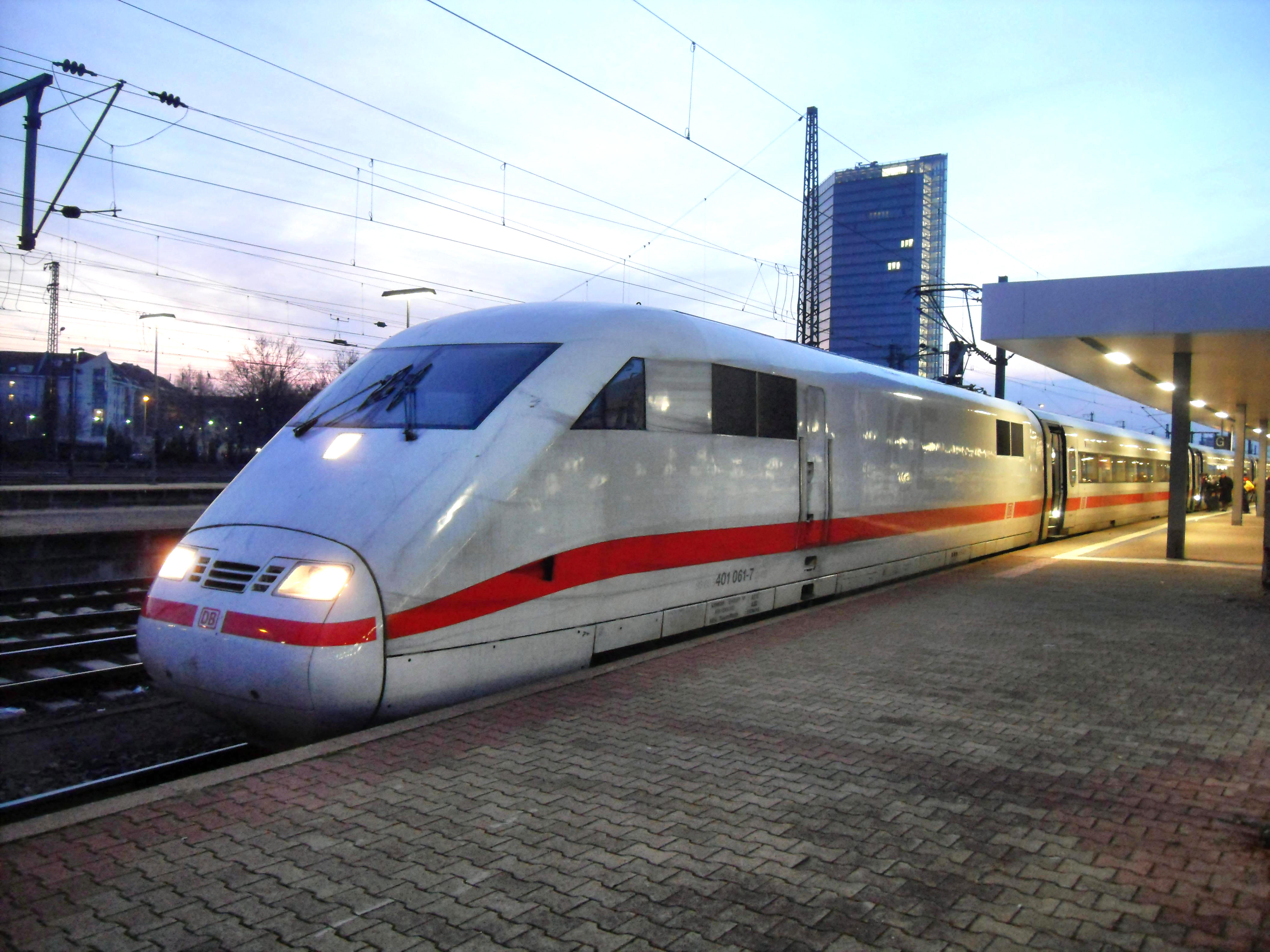 ICE in Mannheim Main Station